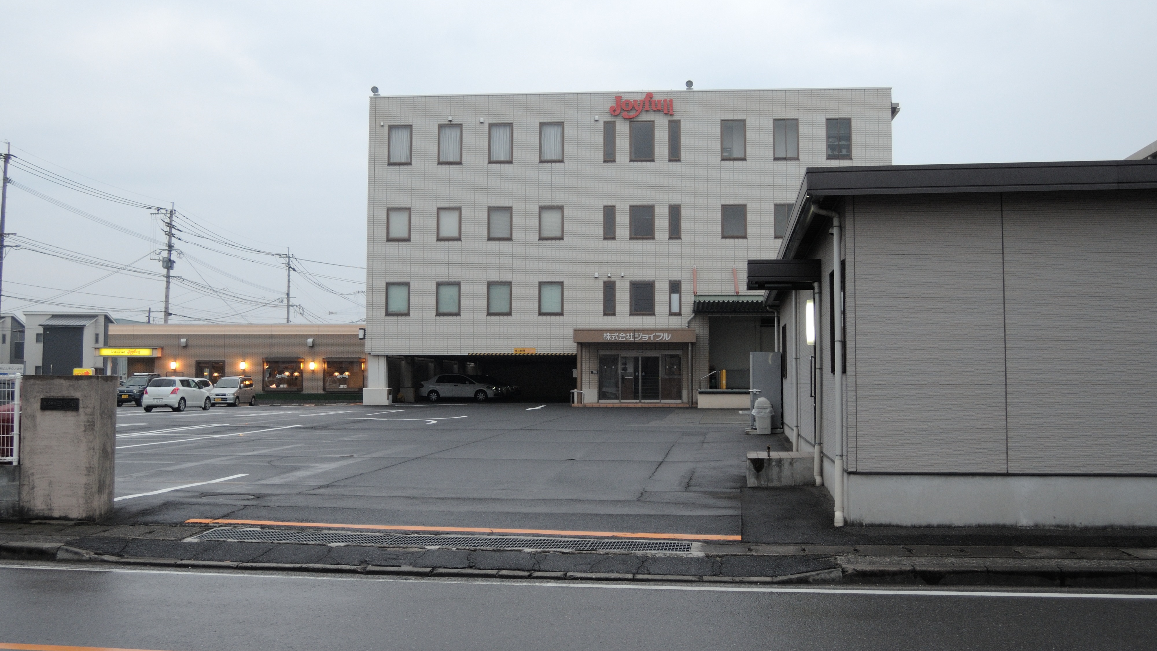 Headquarters of Joyfull Co., Ltd.、Oita Prefecture Pref., Japan